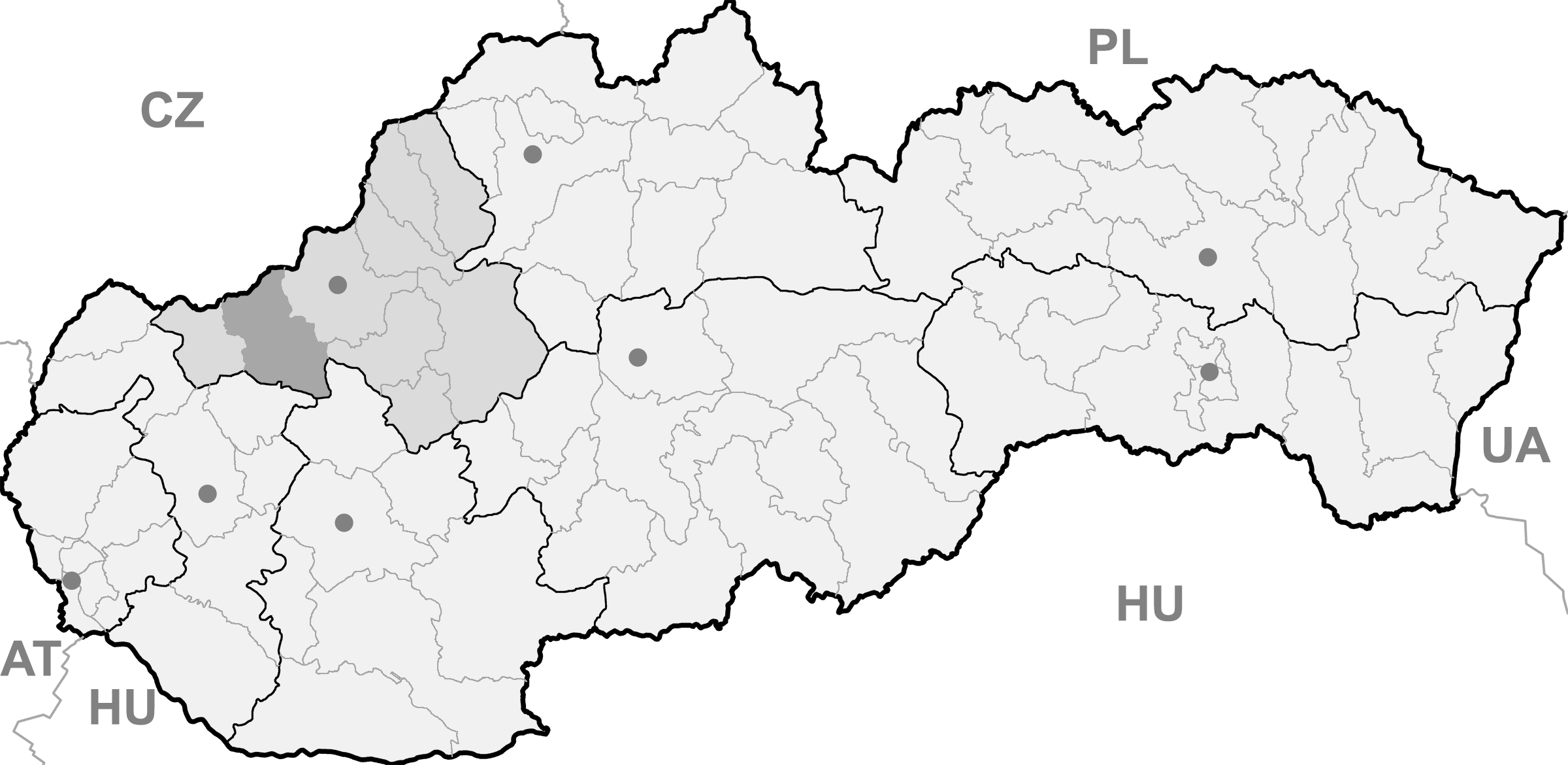 Map of Slovakia, Nové Mesto nad Váhom district and Trencin region highlighted